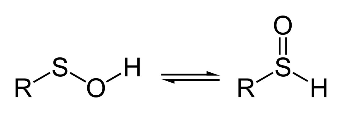 Reversible reaction scheme for tautomerism in sulfenic acids